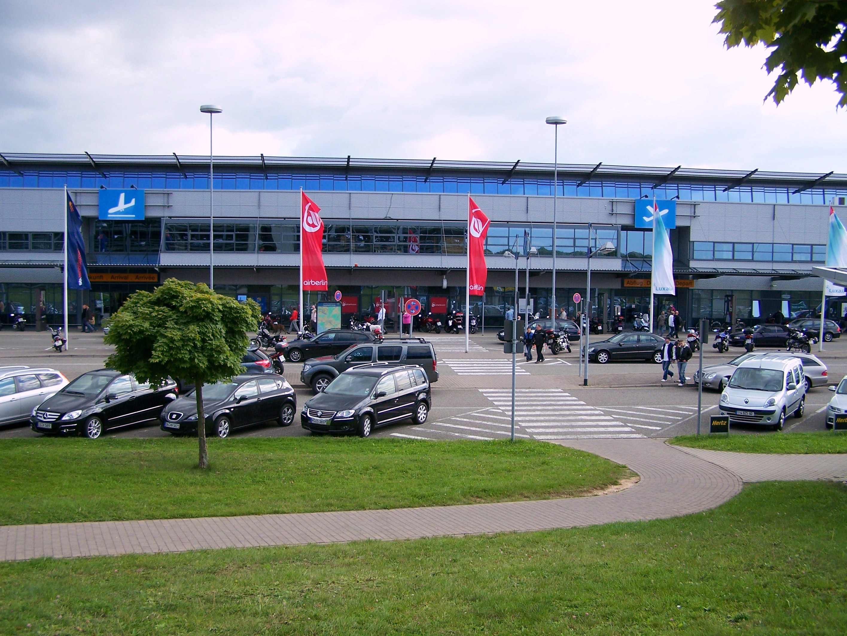 Terminal of Saarbrücken Airport